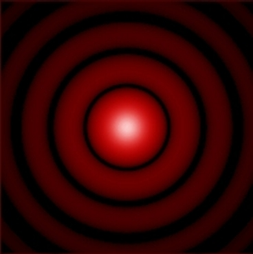 Modified version of Airy-pattern.svg created by Sakurambo 桜ん坊. Changed from grey-scale to red image